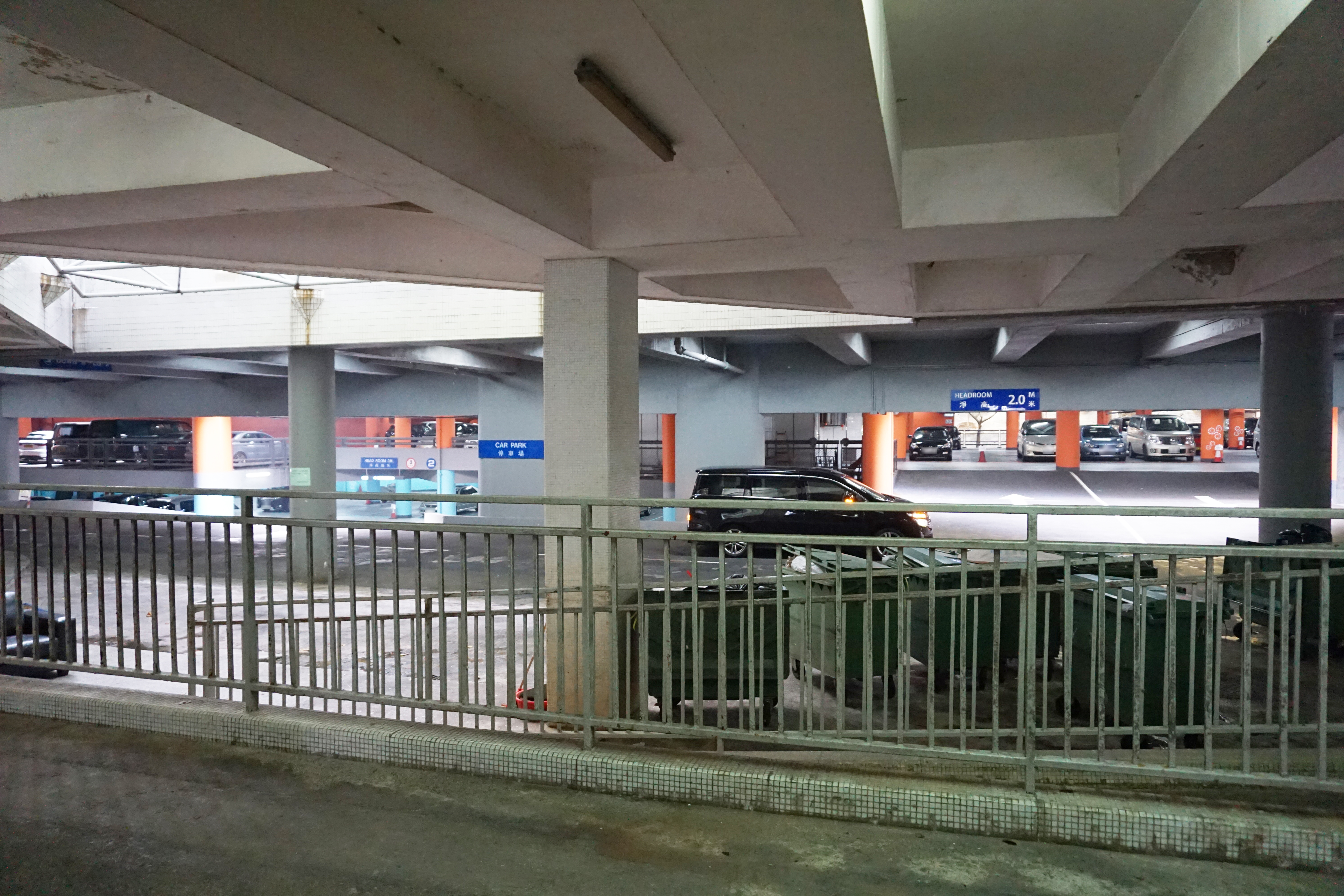 Wah Kwai Estate in Pok Fu Lam, Hong Kong.